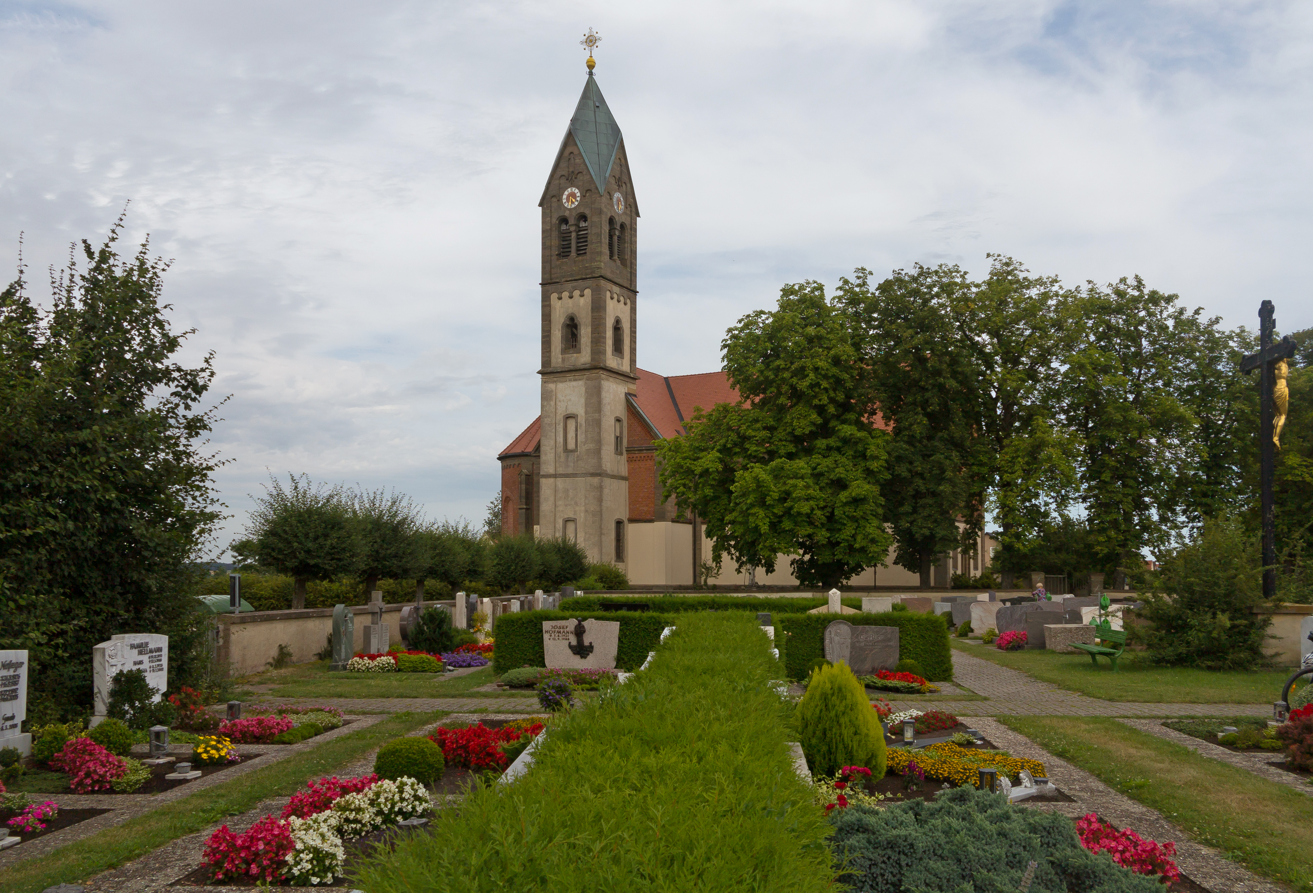 Grossenried, church: katholische Pfarrkirche St. LaurentiusThis is a photograph of an architectural monument.